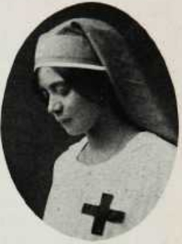 A young woman in nurse's uniform from World War I, in an oval frame.